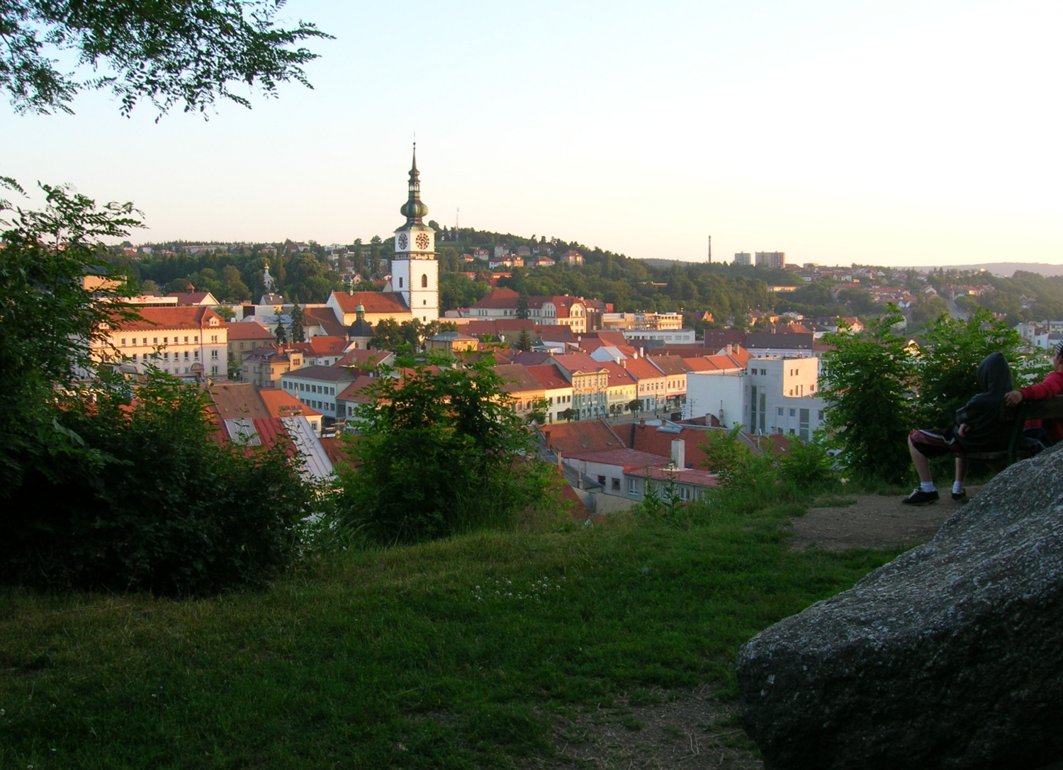 Třebíč-Podklášteří. Hrádek. View of the Vnitřní Město, from the Žižka Monument